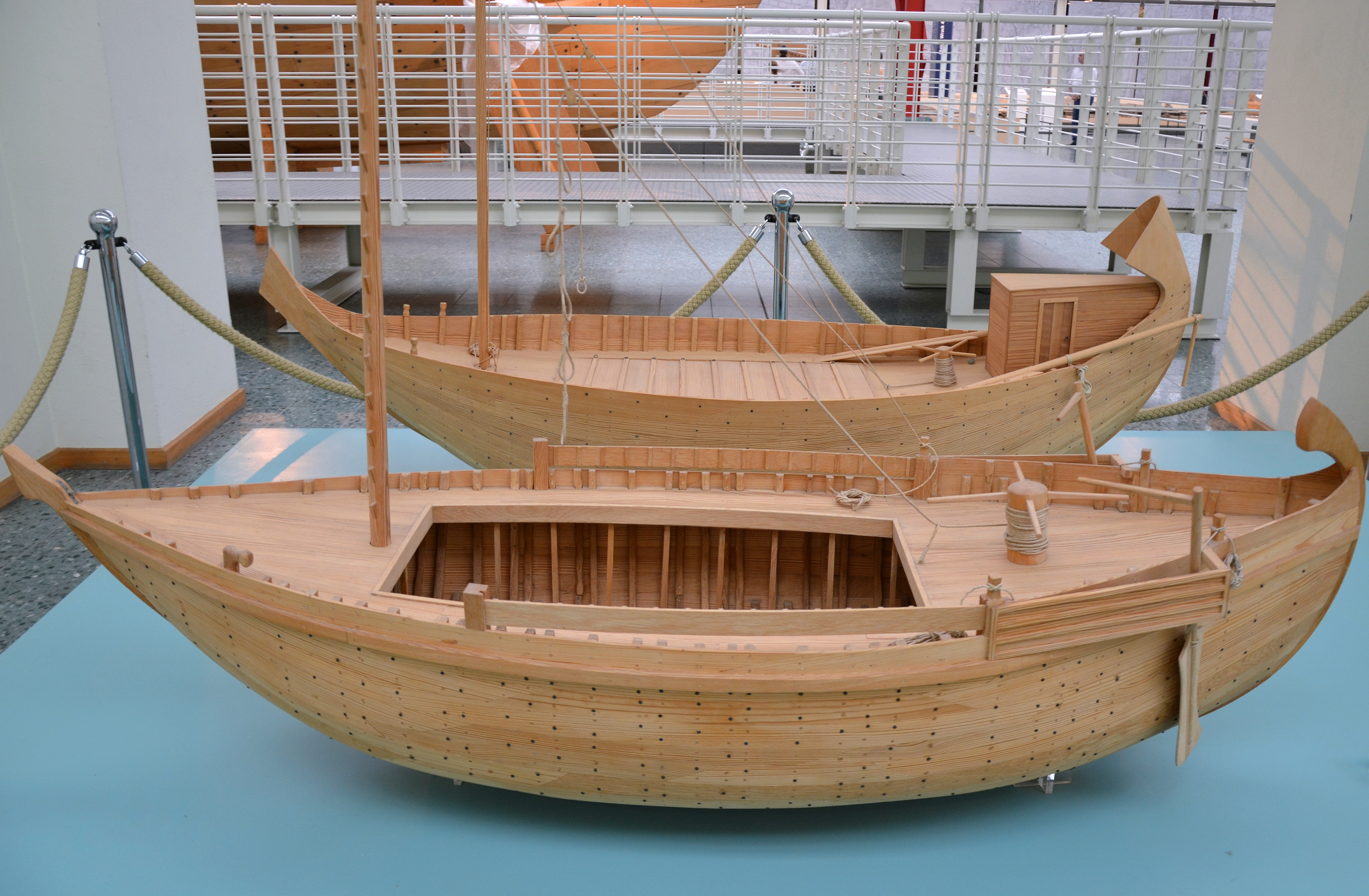 1:10 model of the Ships of Fiumicino that came to light during the construction of the "L. Da Vinci" international airport of Fiumicino on the site of the ancient harbour basin built in 42 AD by the emperor Claudius, Museum für Antike Schiffahrt, Mainz